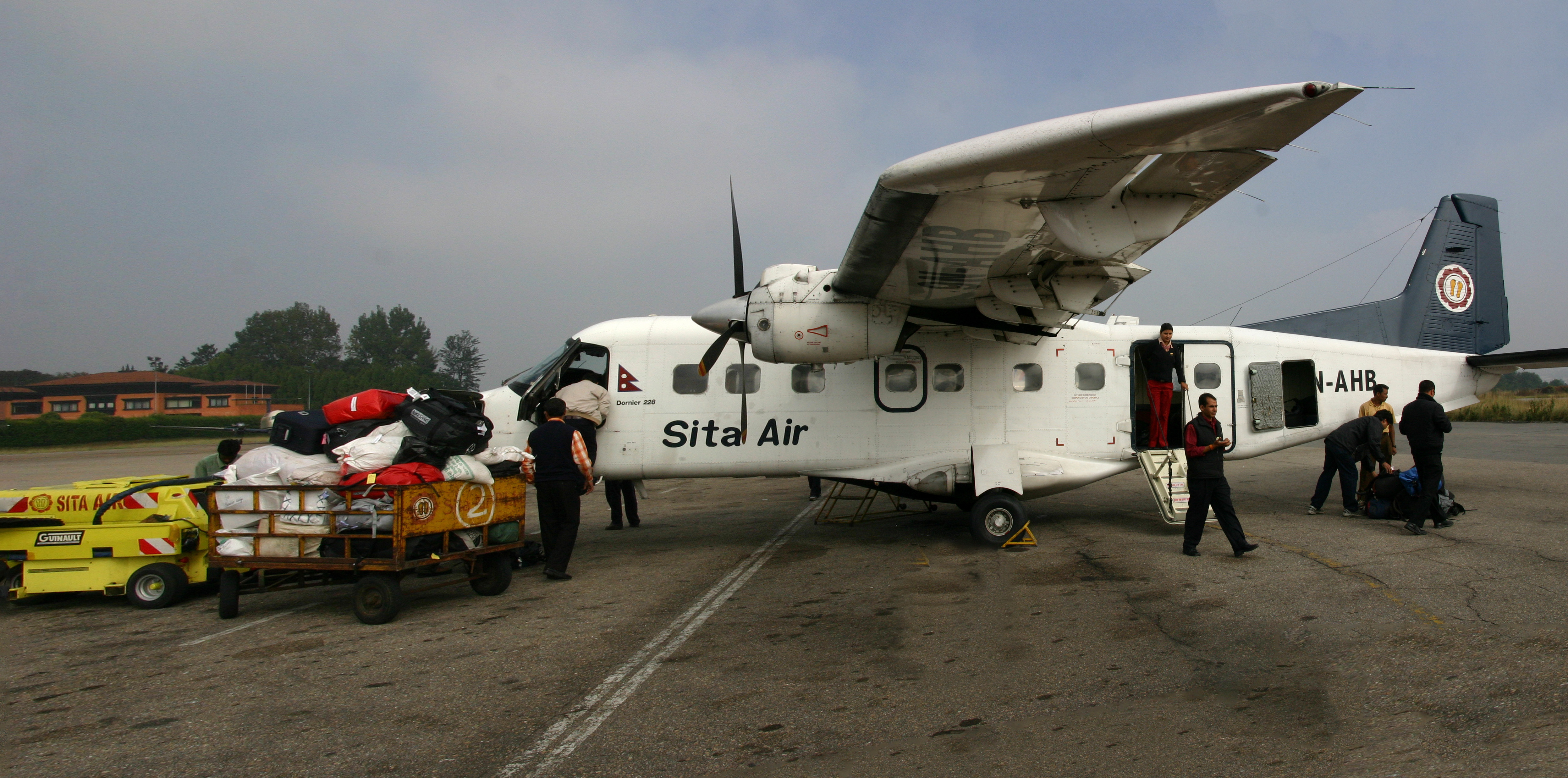 Tribhuvan International Airport Domestic Terminal